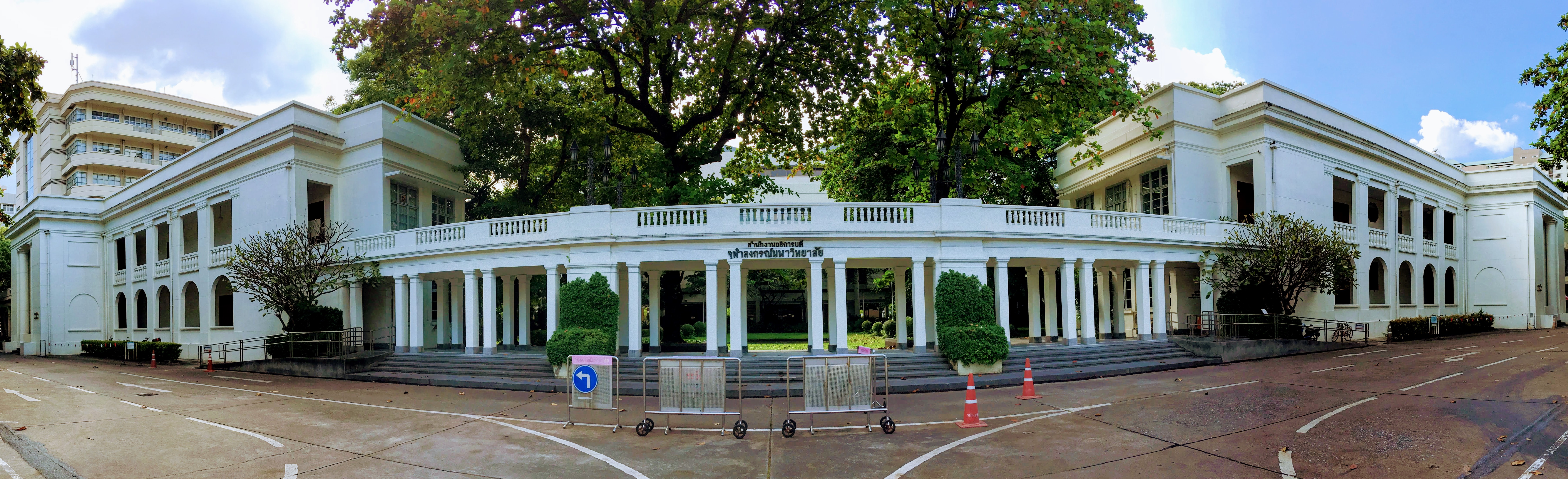 Panoramic shot of the west side of Chulalongkorn University Campus taken in September, 2018